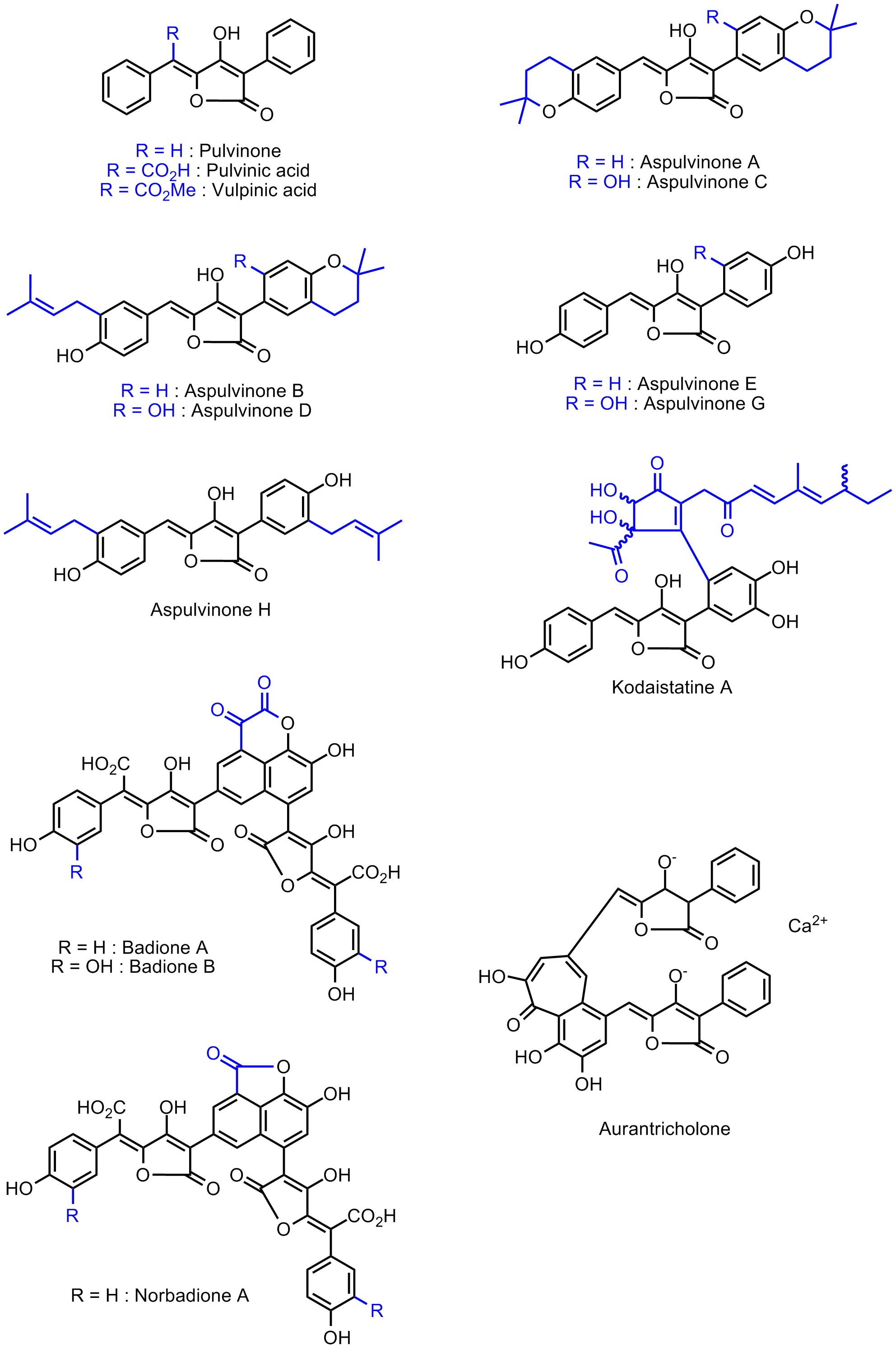 Pulvinone derivatives (AlChimini, AlChimini, 2008-05-24)